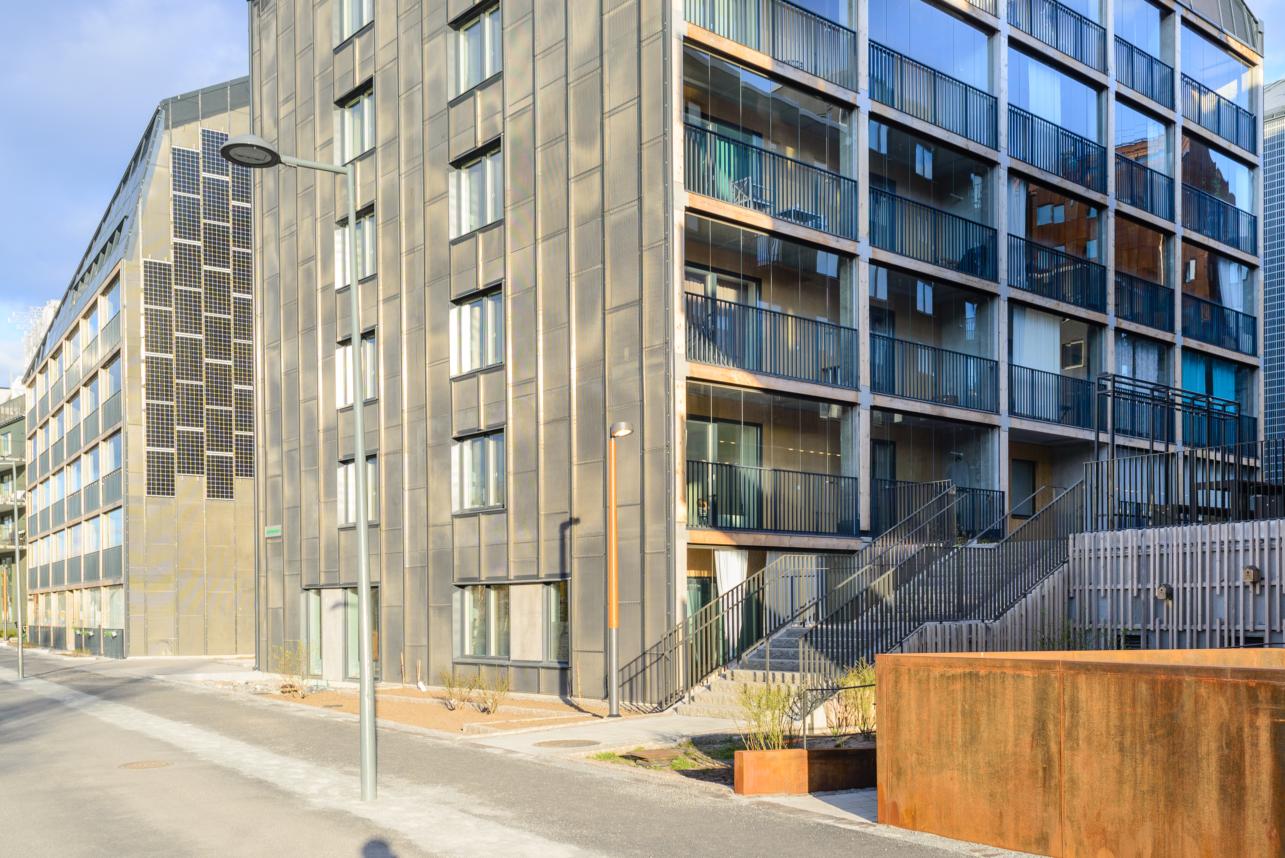 Stockholmshems plusenergihus, Norra Djurgården.